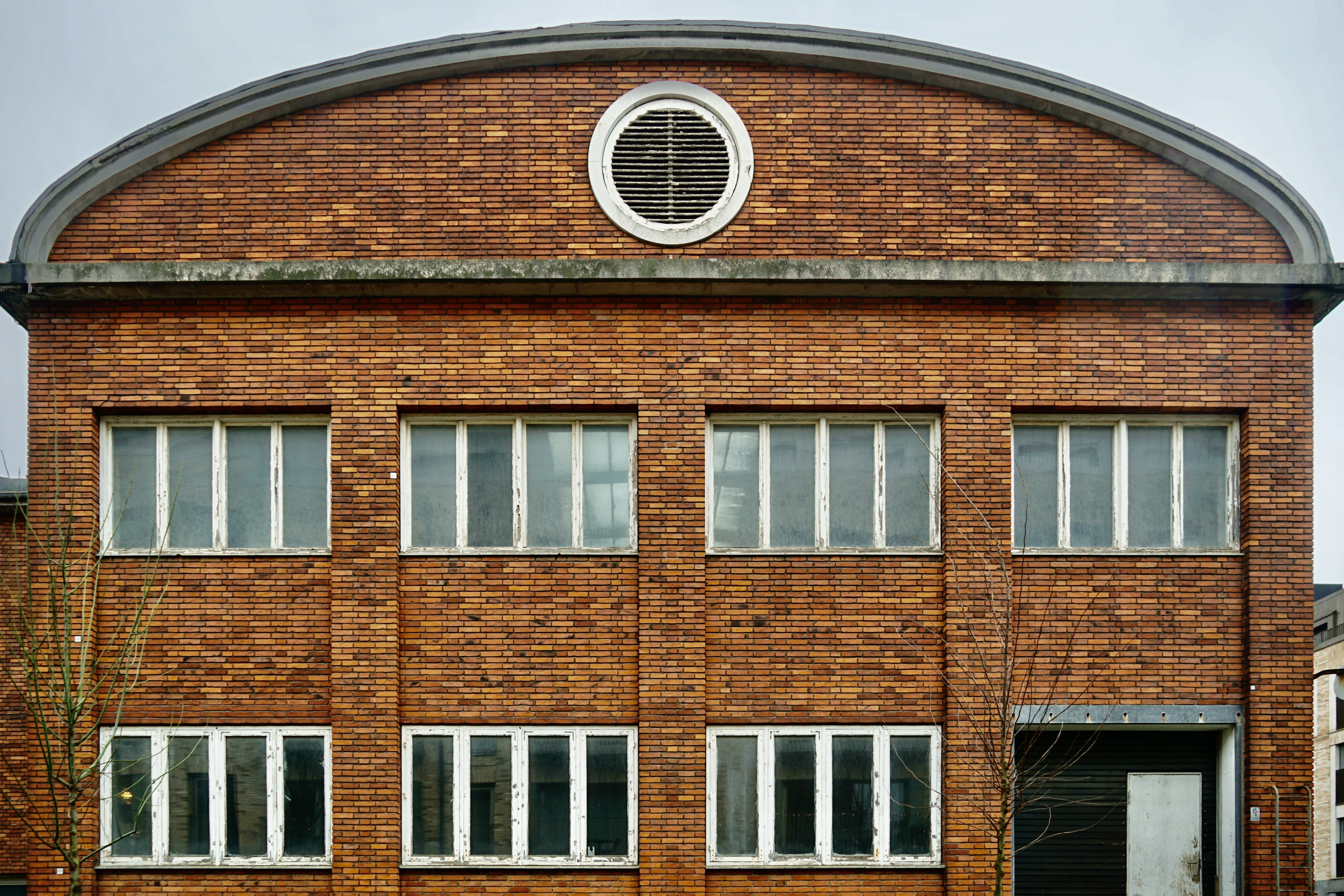 Halmlageret, Copenhagen